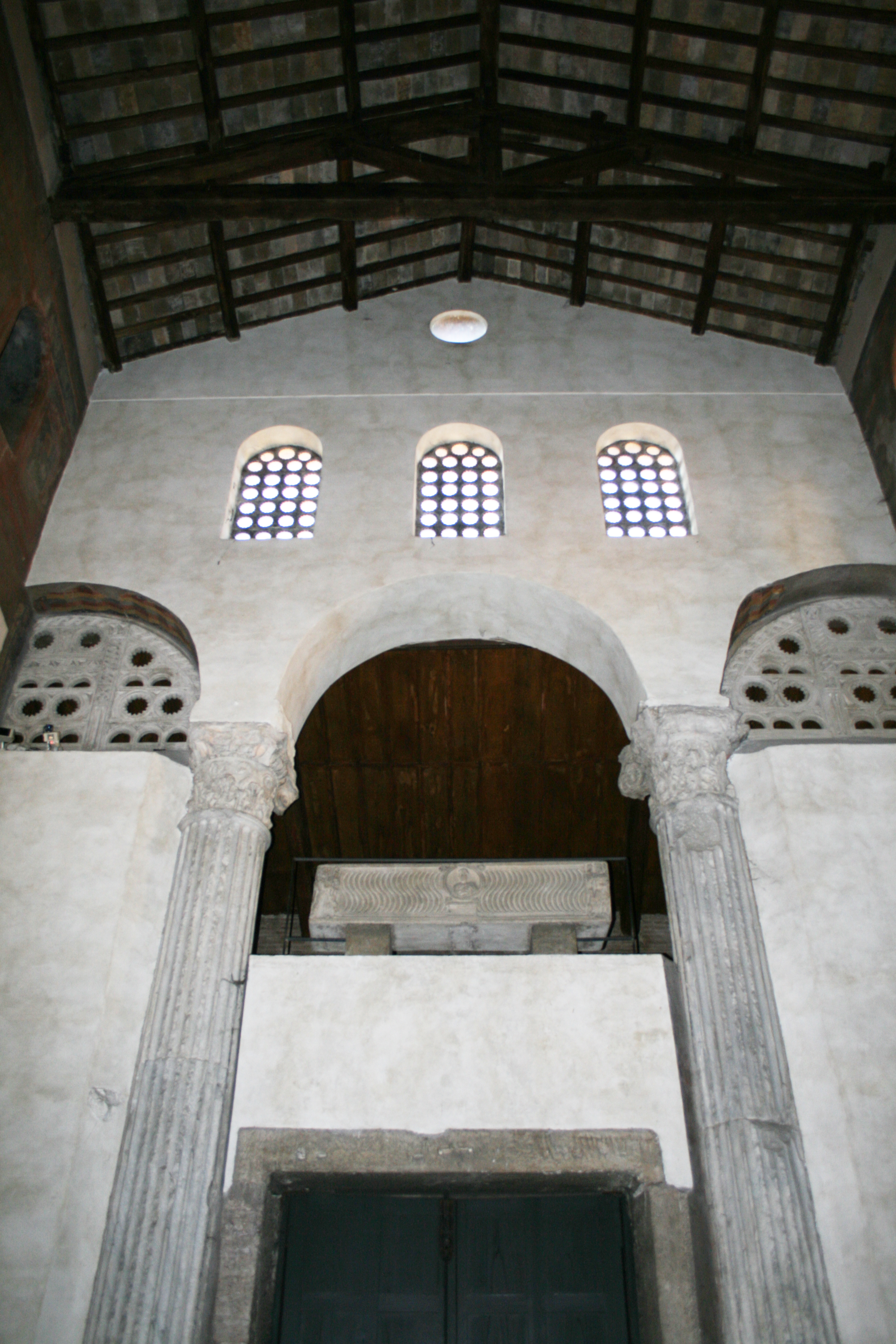 Maria in Cosmedin, colomn of the Statio Annonae